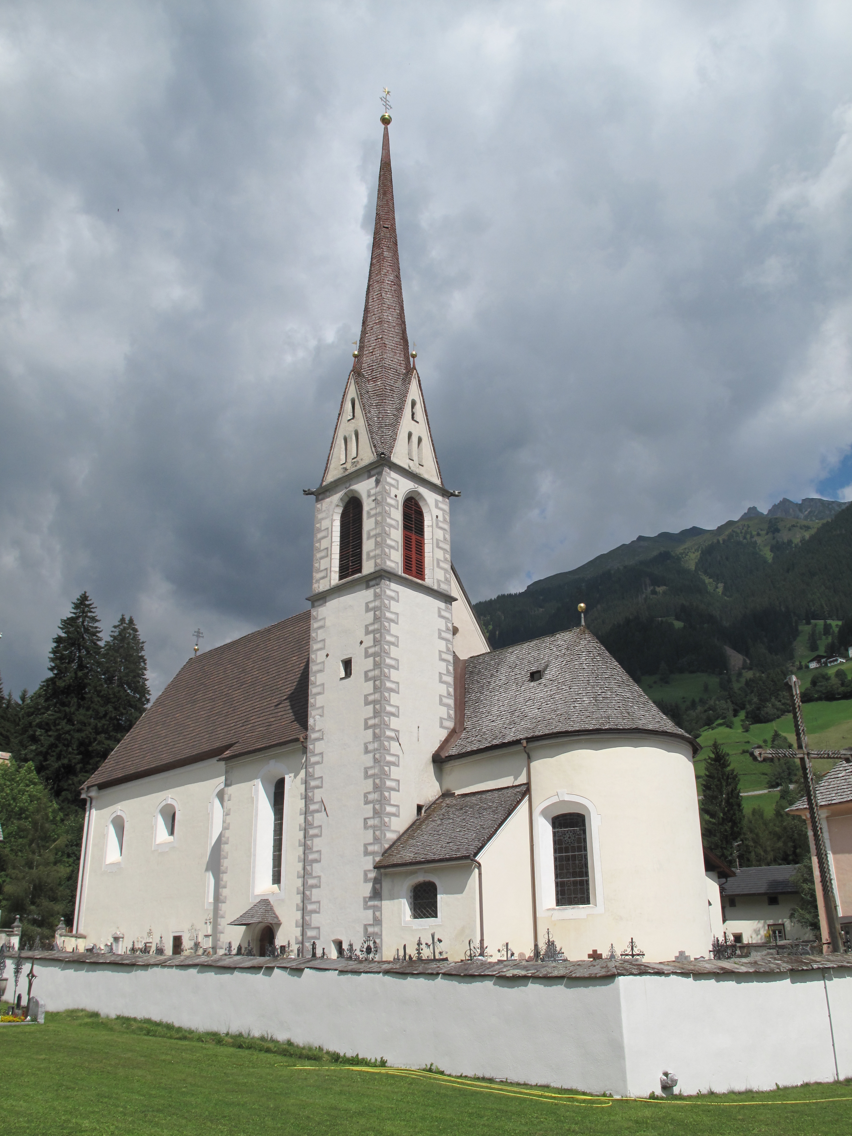 Mareta, church: Sankt-Pankratius-Kirche